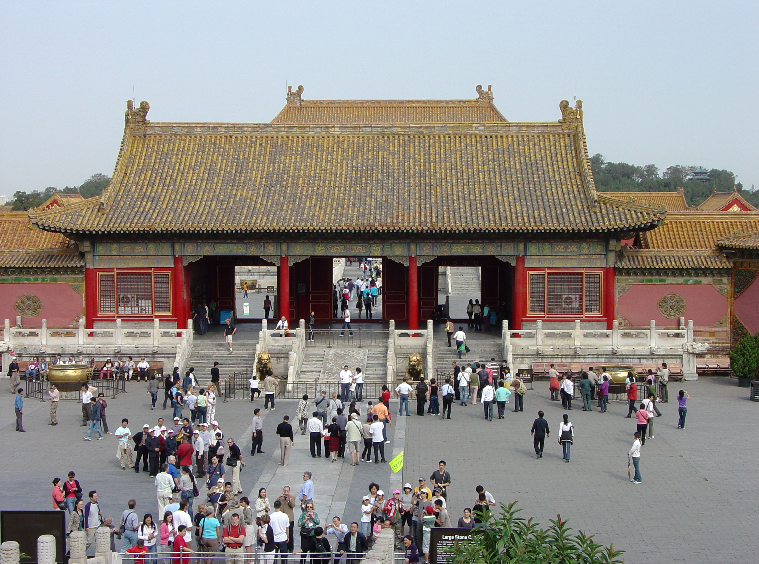 Gate of Heavenly Purity. Forbidden City, Beijing Located north of the outer court platform, the Gate of Heavenly Purity marks the entrance to the inner court palaces of the Forbidden City. Bronze water vats and foo lions are arranged in front of the gate, which is approached by a triple staircase.